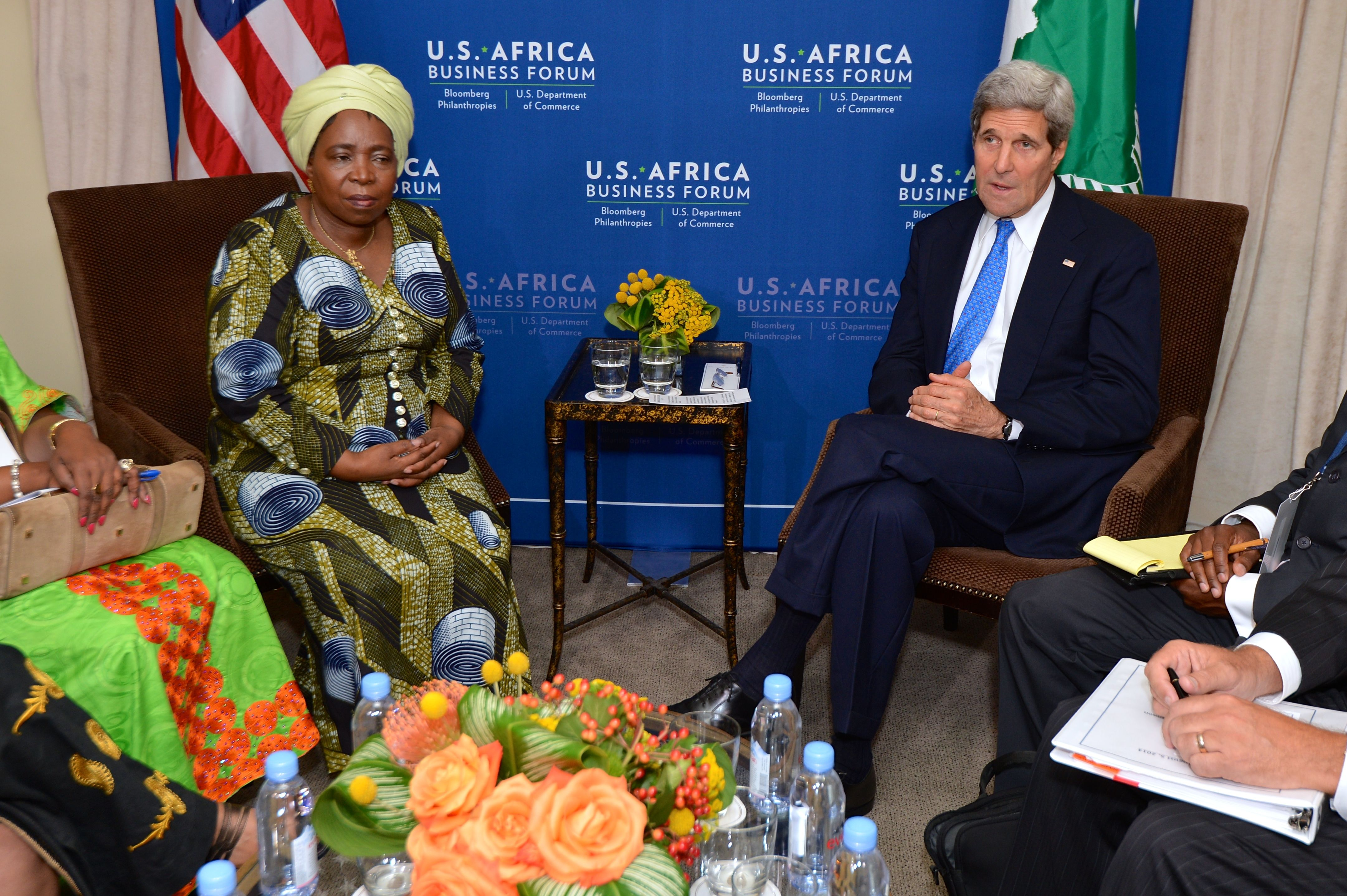 U.S. Secretary of State John Kerry meets with African Union Commission Chairperson Dr. Nkosazana Dlamini-Zuma on the sidelines of the U.S.-Africa Business Forum in Washington, D.C., on August 5, 2014. Leaders from across the African continent are in the nation's capital for a three-day U.S.-Africa Leaders Summit, the largest event any U.S. President has held with African heads of state and government.